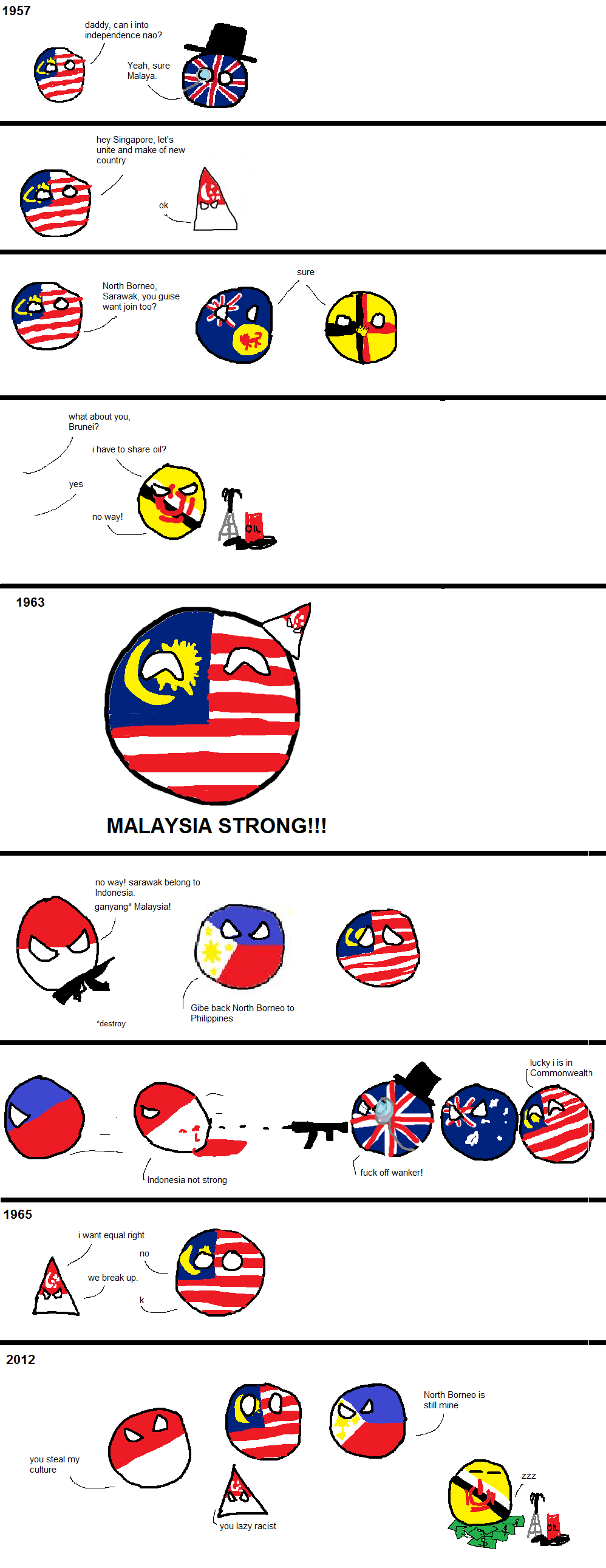 Polandball comic on the history of Malaysia